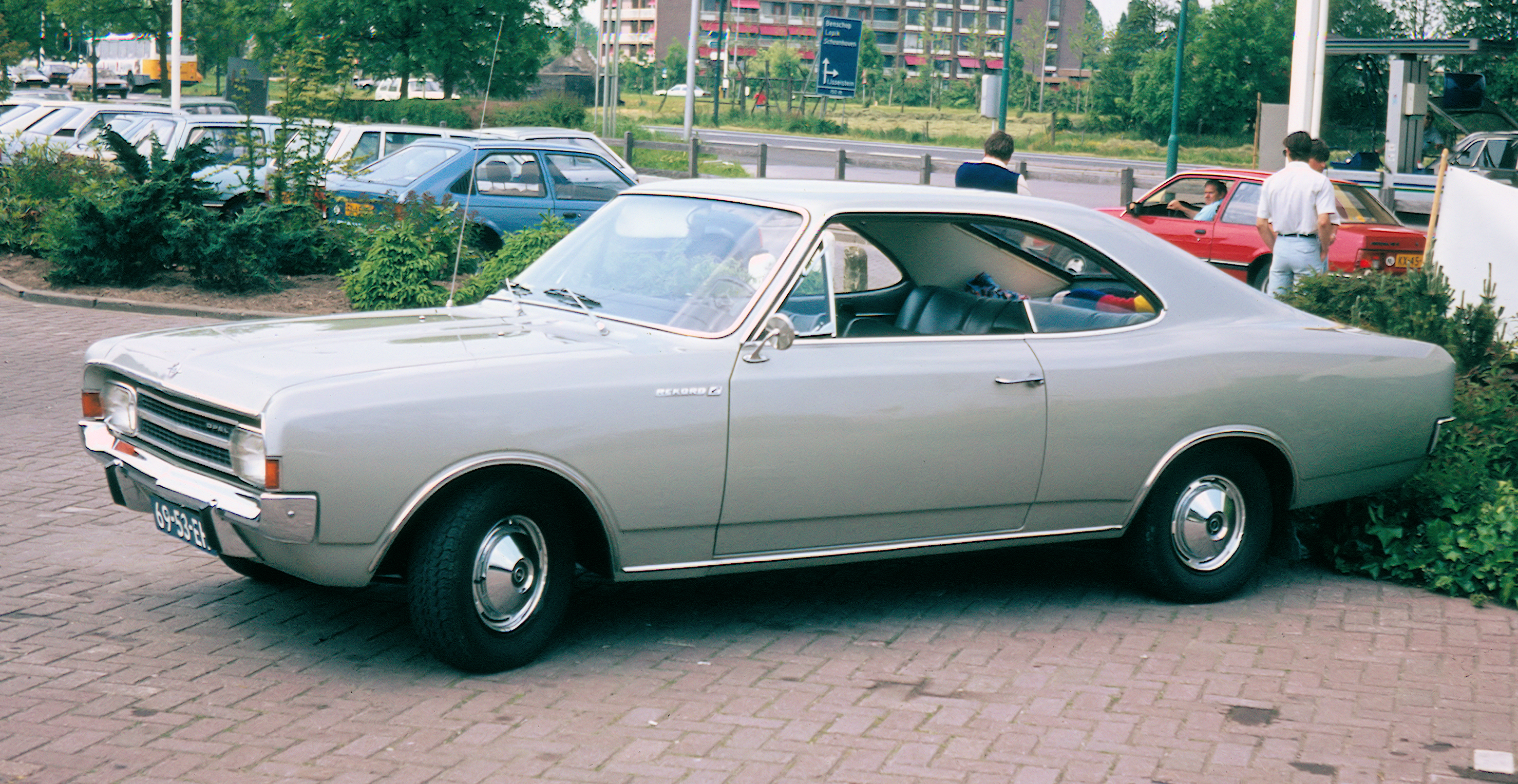 Opel Rekord C coupé